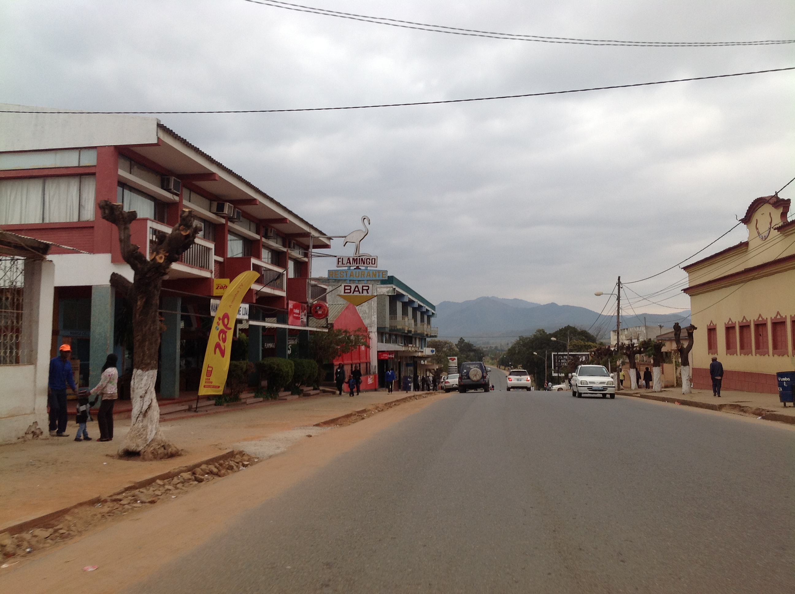 Main road in Manica, Manica, Mozambique